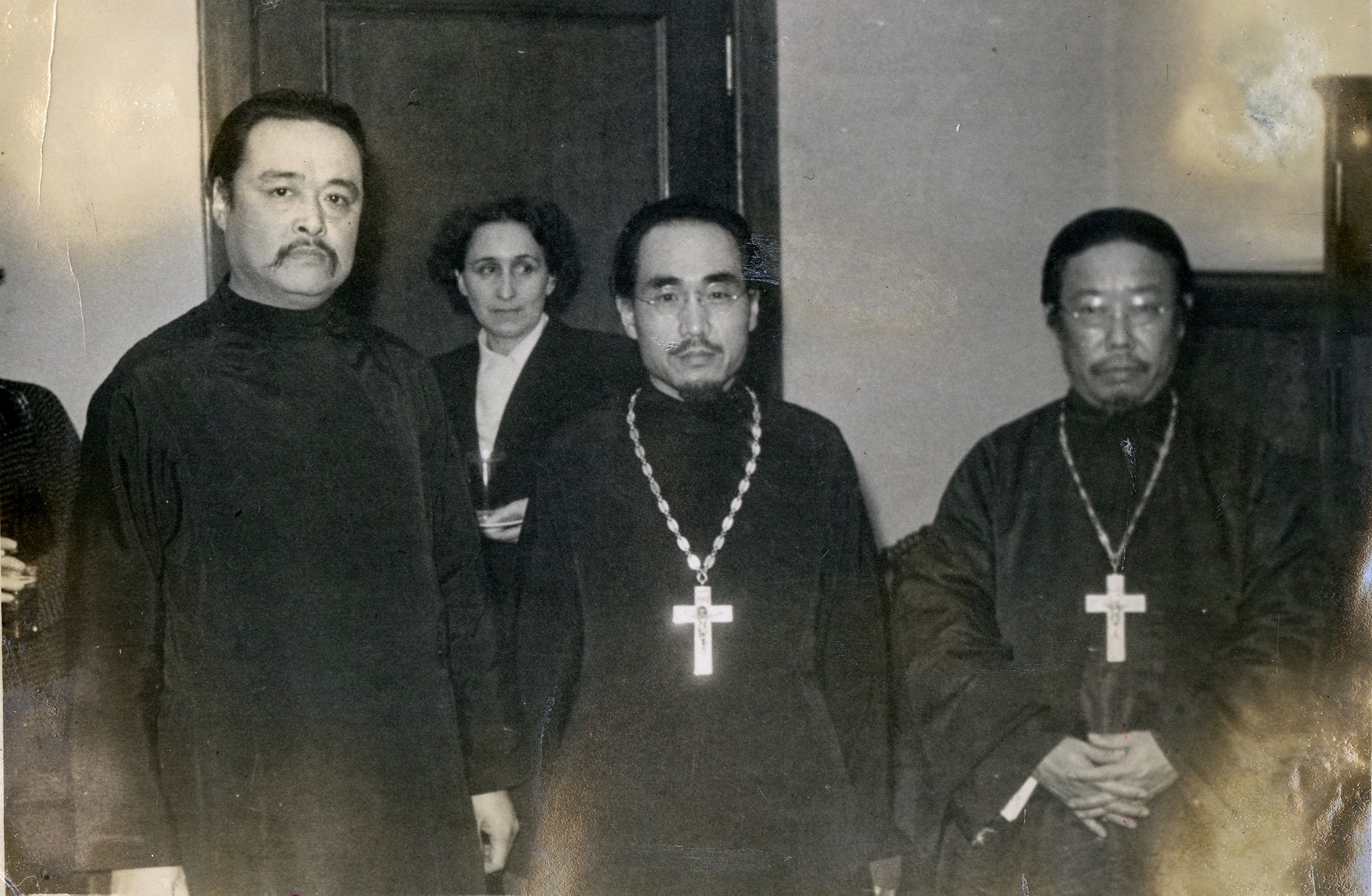 Protodeacon Elisey Zhao, Protopriest Ilias Wen, Protopriest Nikolai Li